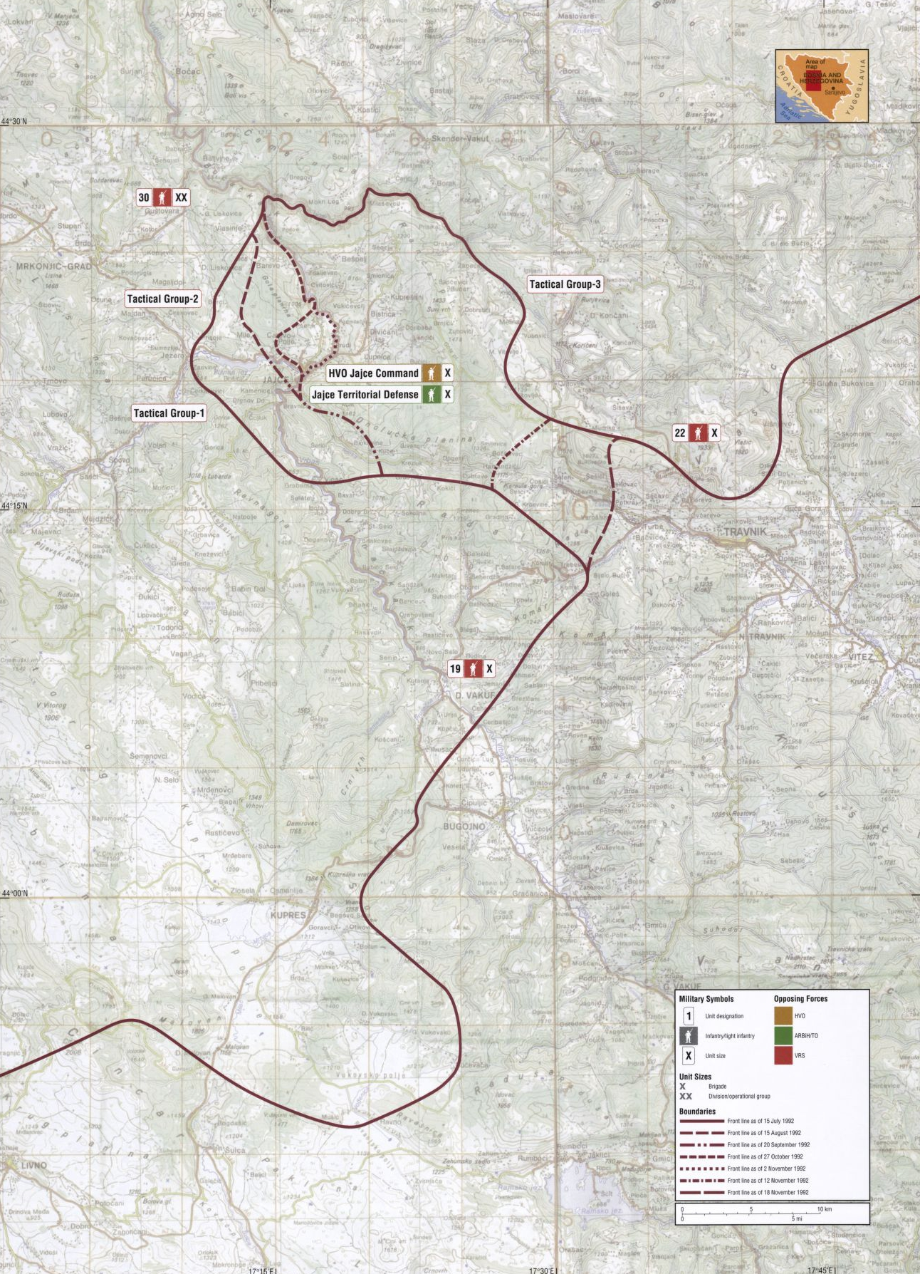 Map of Operation Vrbas '92 (Battle of Jajce) in June-October 1992 period of the Bosnian War. Balkan Battlegrounds Map 13.